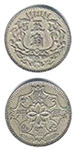 Mengjiang, Inner Mongolia, China, 5 jiao, copper-nickel, year 27 in the Chinese Republic Calendar (1938). The only coin issued.